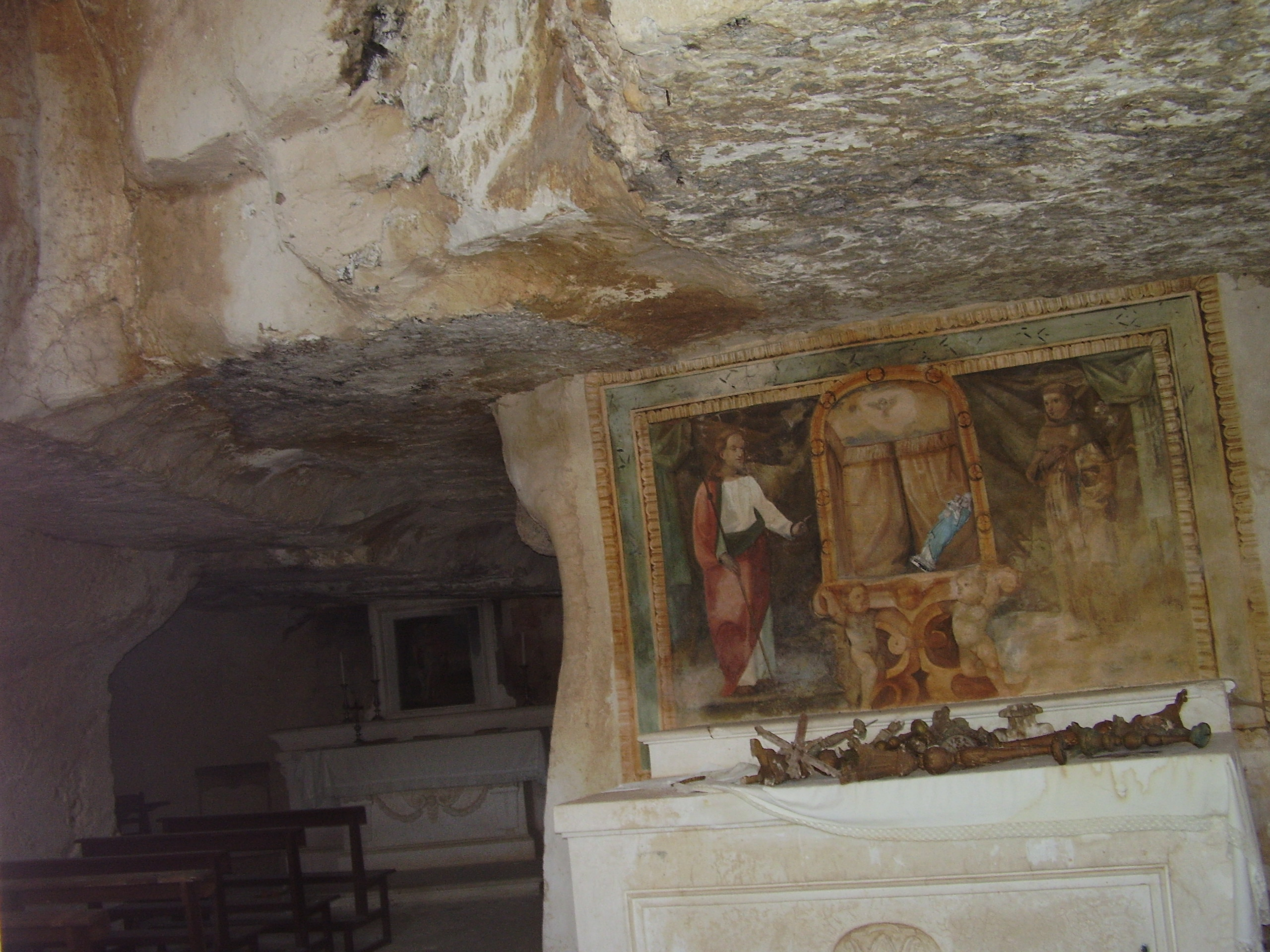 Internal view of the San Rocco church in Ripa Fagnano